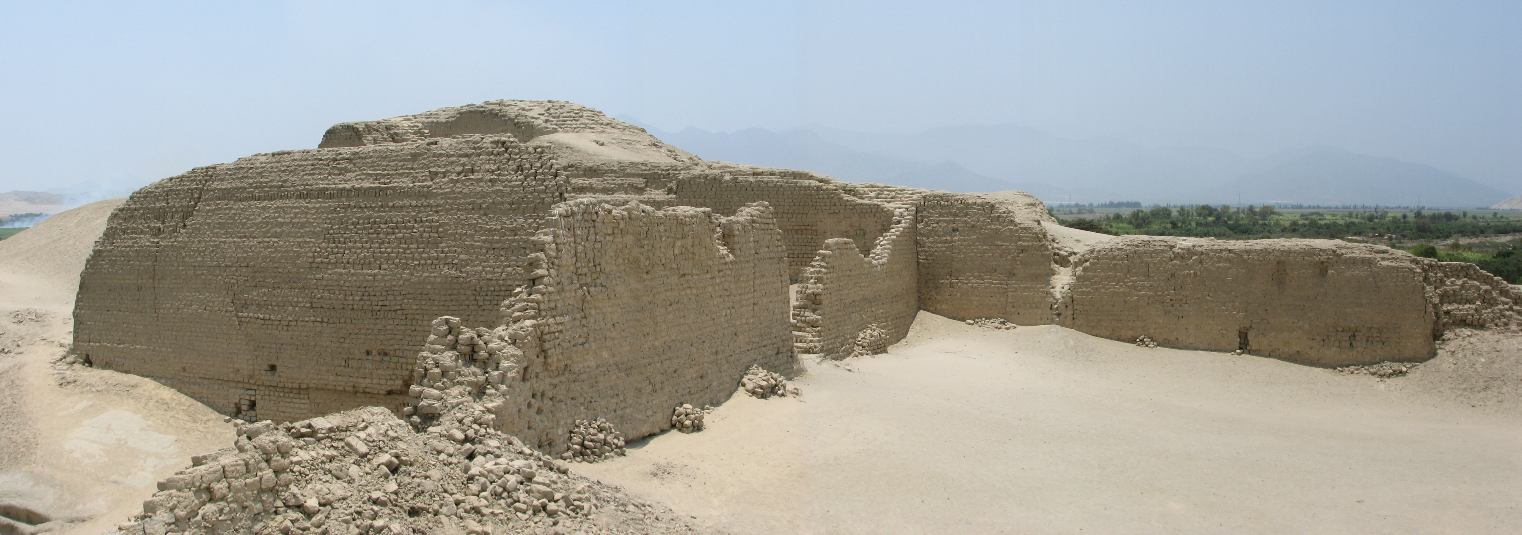 Pañamarca Archaeological site (overview)